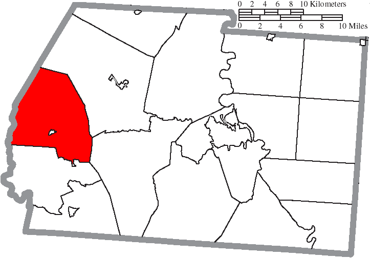 Map of the municipal and township boundaries of Ross County, Ohio, United States, as of the 2000 census, with the location of Buckskin Township highlighted. Township borders are shown only in unincorporated areas in order to differentiate incorporated and unincorporated areas more clearly.